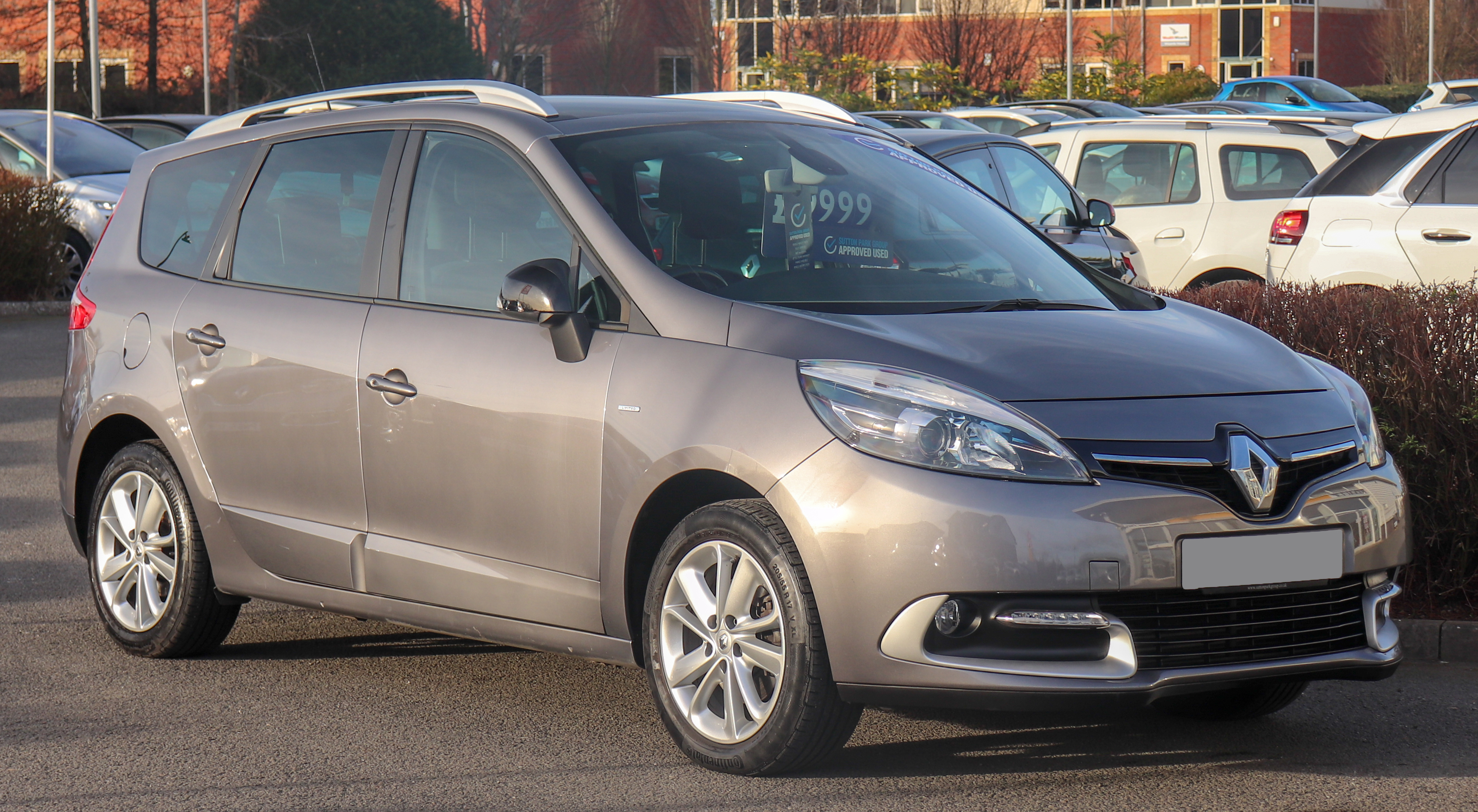 2014 Renault Grand Scenic LTD Energy DCi 1.5 Front Taken in Leamington Spa